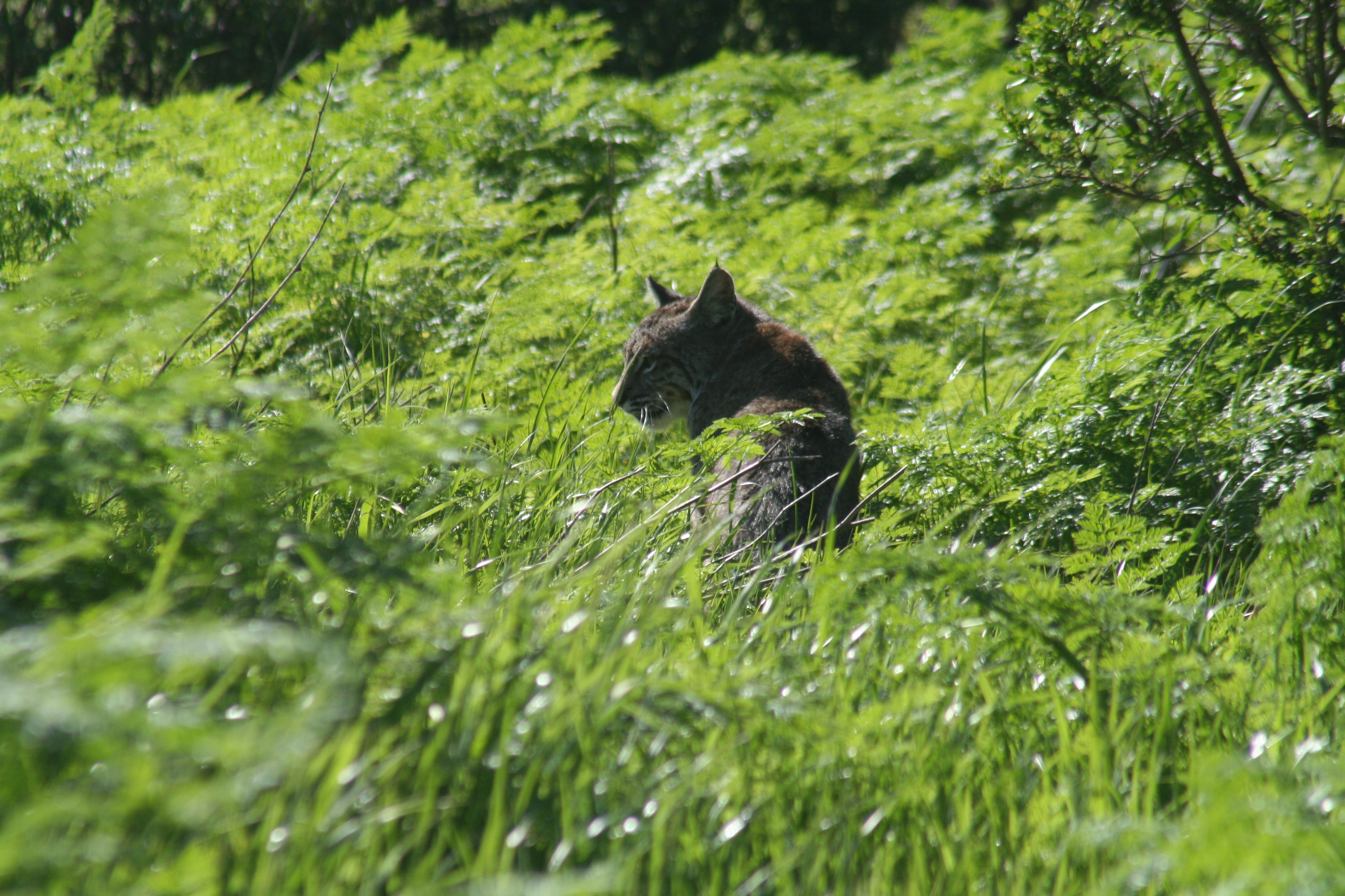 A wild Bobcat